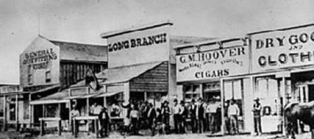 Front Street, Dodge City, KS, 1874, with Robert Wright and Charles Rath's General store, Chalk Beeson's Long Branch, George M. Hoover's liquor and cigar store, and Frederick Zimmermann's gun and hardware store.